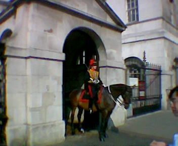 Sentry posted outside Horse Guards Taken by Phillip Barlow in August 2005